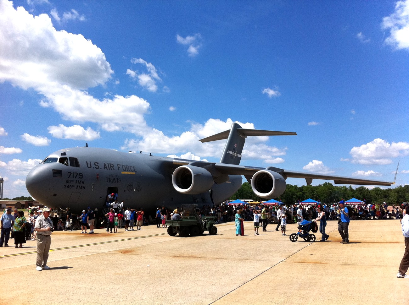 A C-17 Globemaster III from Travis AFB (CA), exposed at Andrews Air show 2011 (Joint Open Service House).